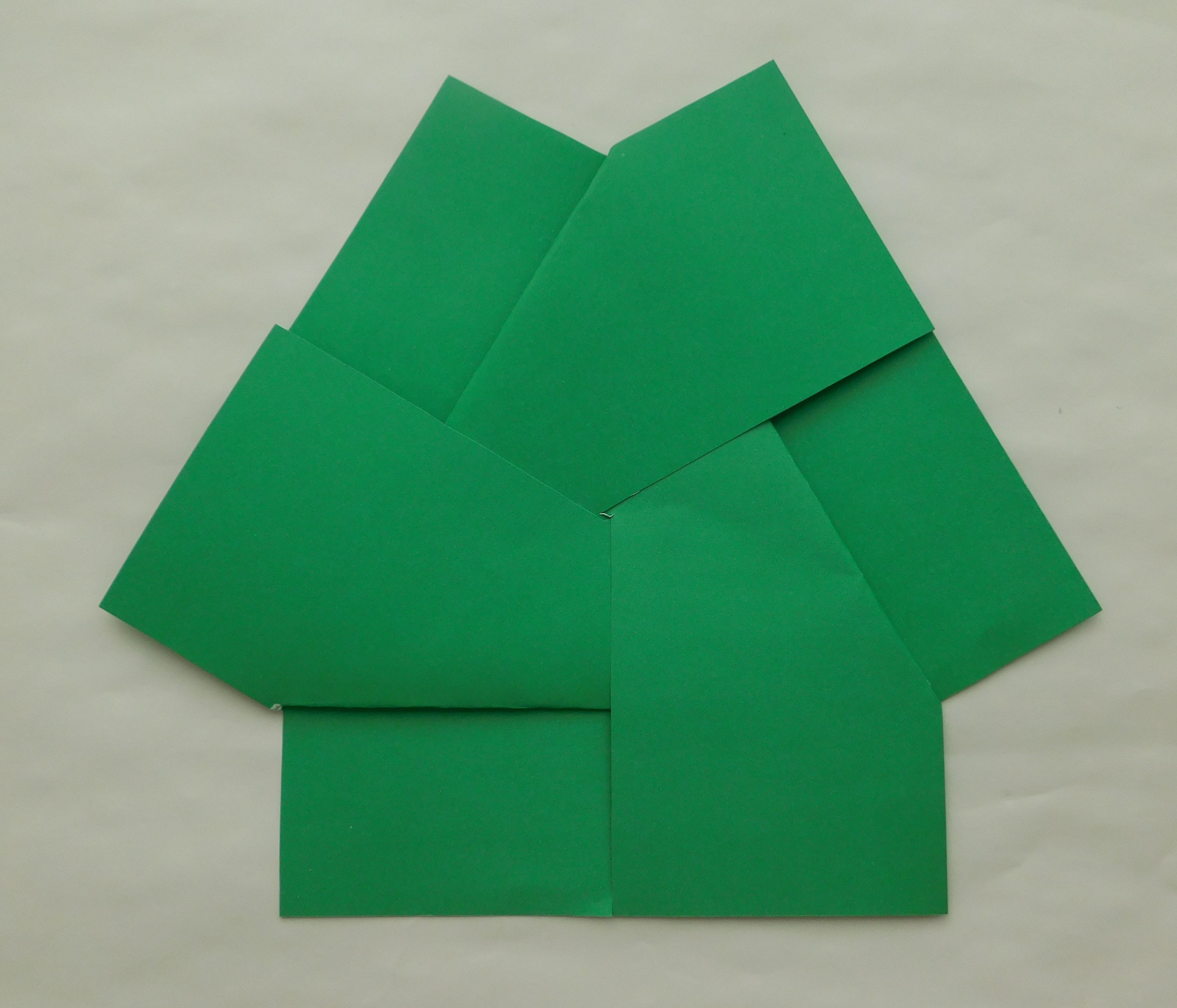 Central part of nonorientable Boy surface, flattened with folds along sides of a regular triangle, cut out of paper. Note the triple intersection in the center, double intersection lines from the center to midpoints of the sides of the triangle and fold annihilation at the vertices. Outer edge can be extended to infinity (flat version) or glued to a sphere (standard Boy surface)